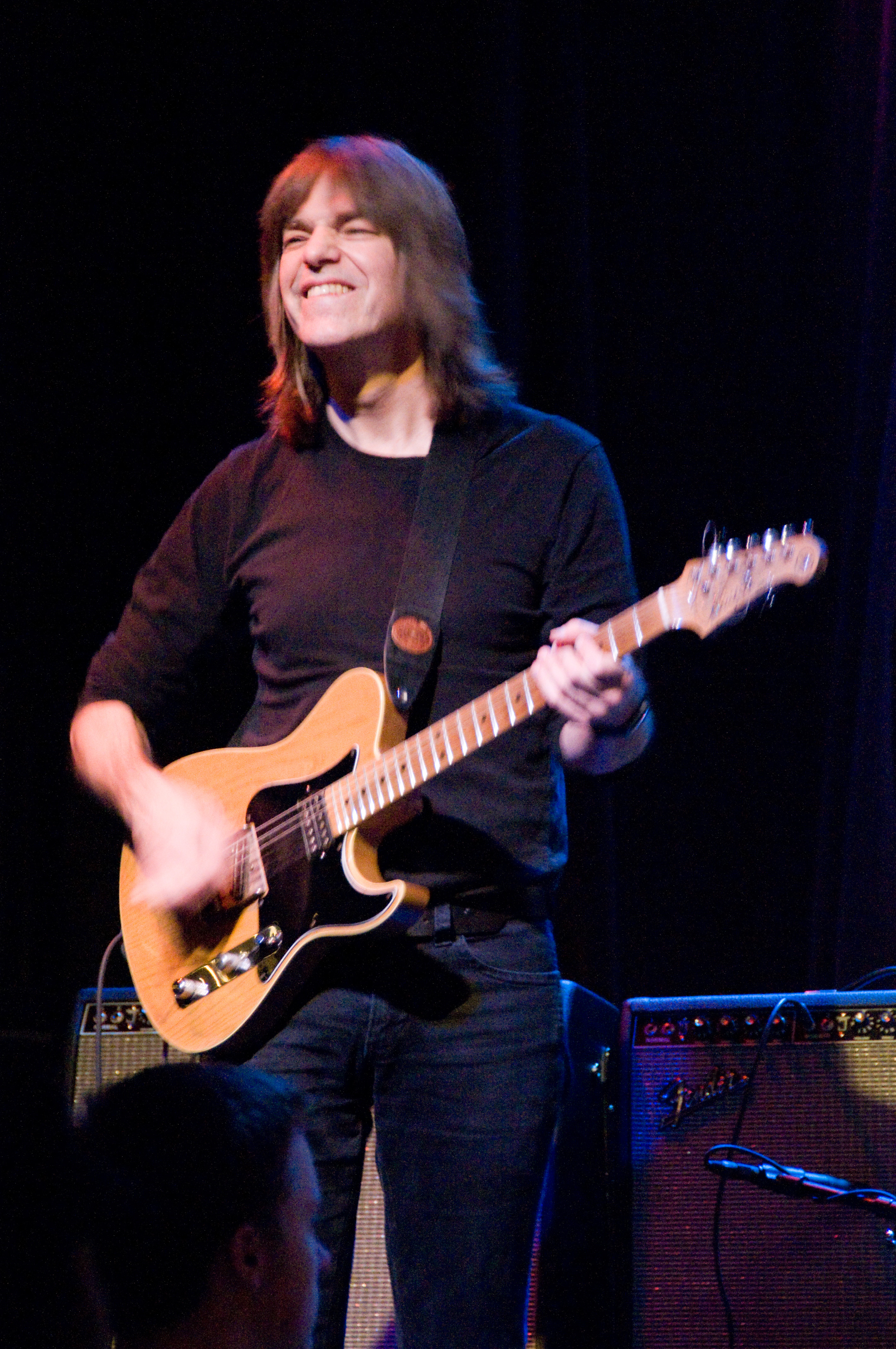 So easy going for such a killer.